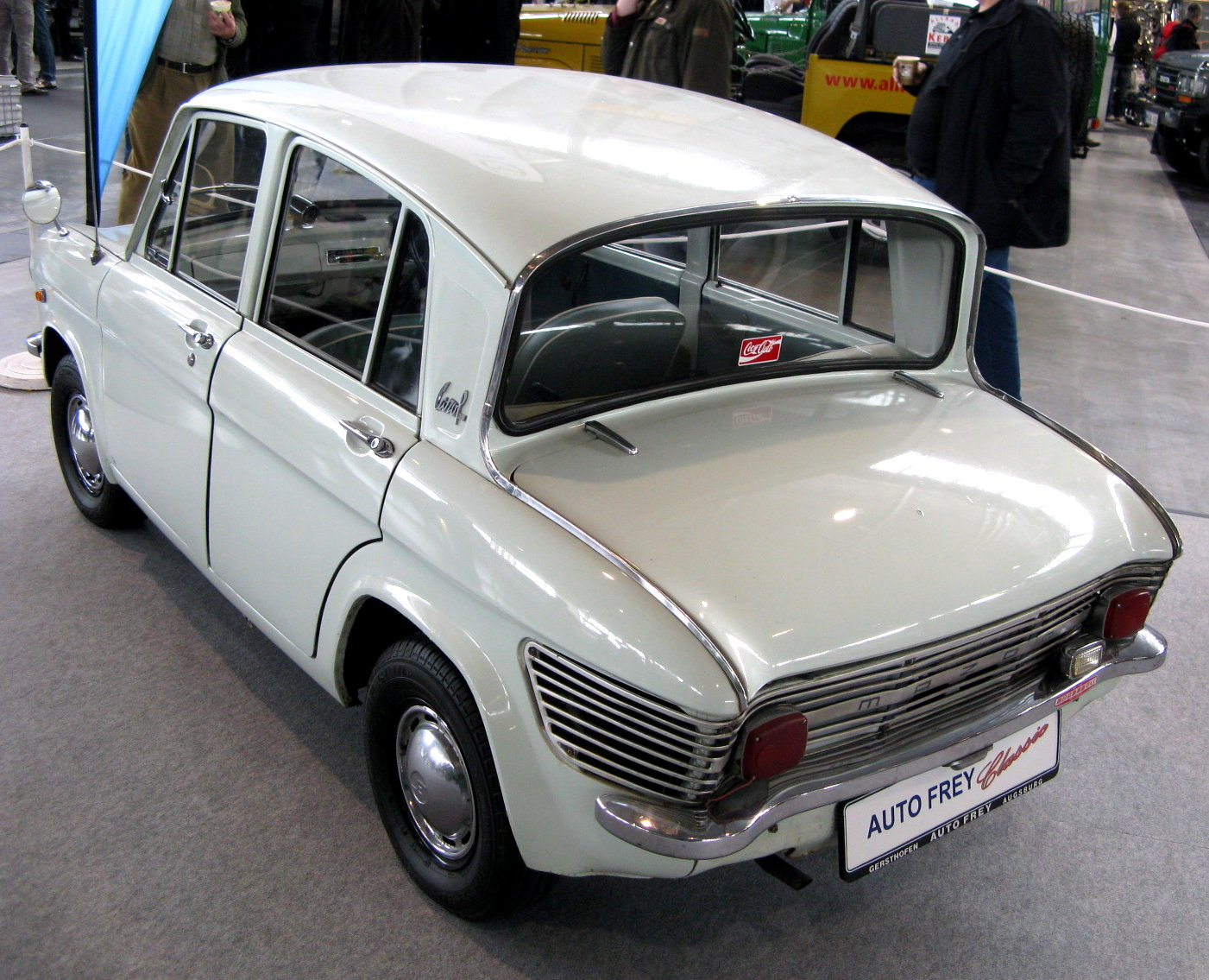 1962 Mazda Carol P 600